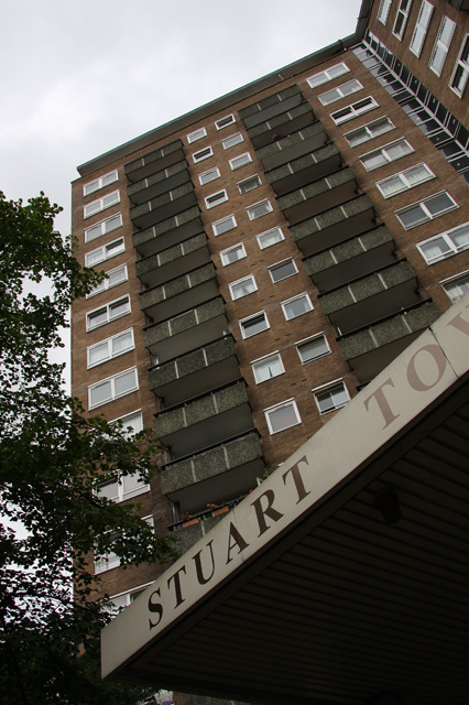 Stuart Tower, located on the corner of Sutherland Avenue and Maida Vale in Westminster, England. It has 17 floors above ground and consists of residential apartments.